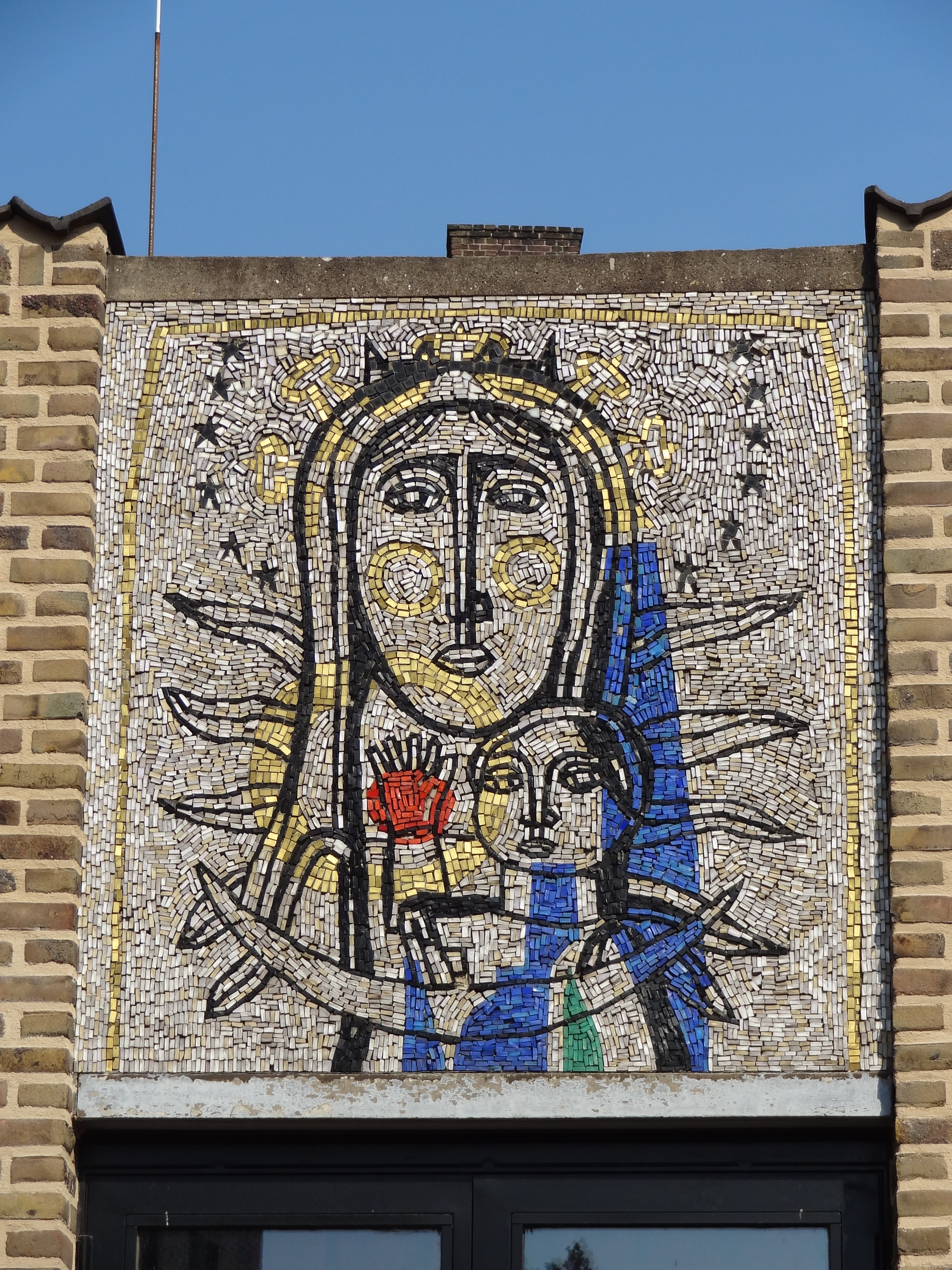 Mosaic 'Moeder Gods' (Mother of God) created by Jan van Eijk at the facade of the Titus Brandsmakapel at the Kroonstraat in Nijmegen, The Netherlands